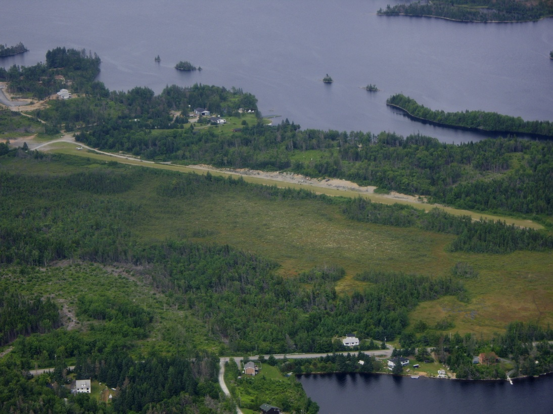 Aerial view of Porter's Lake Airport in Porter's Lake, Nova Scotia